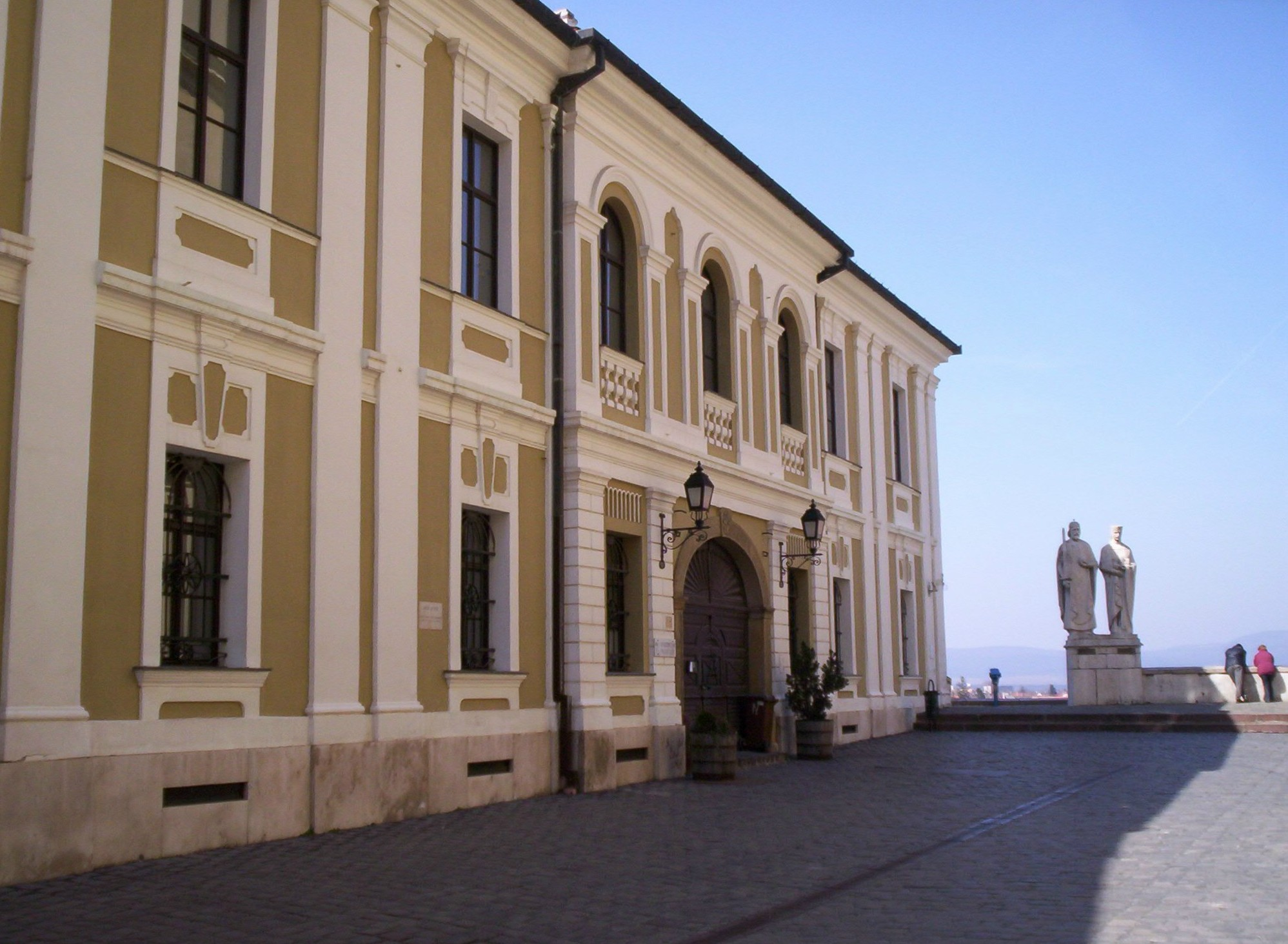 Description: A building of the University of Veszprém in the castle